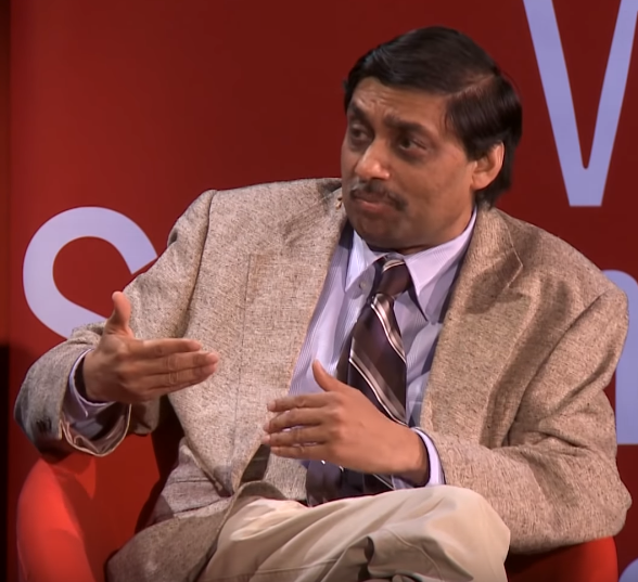 Prof. Mathur at World Science Festival